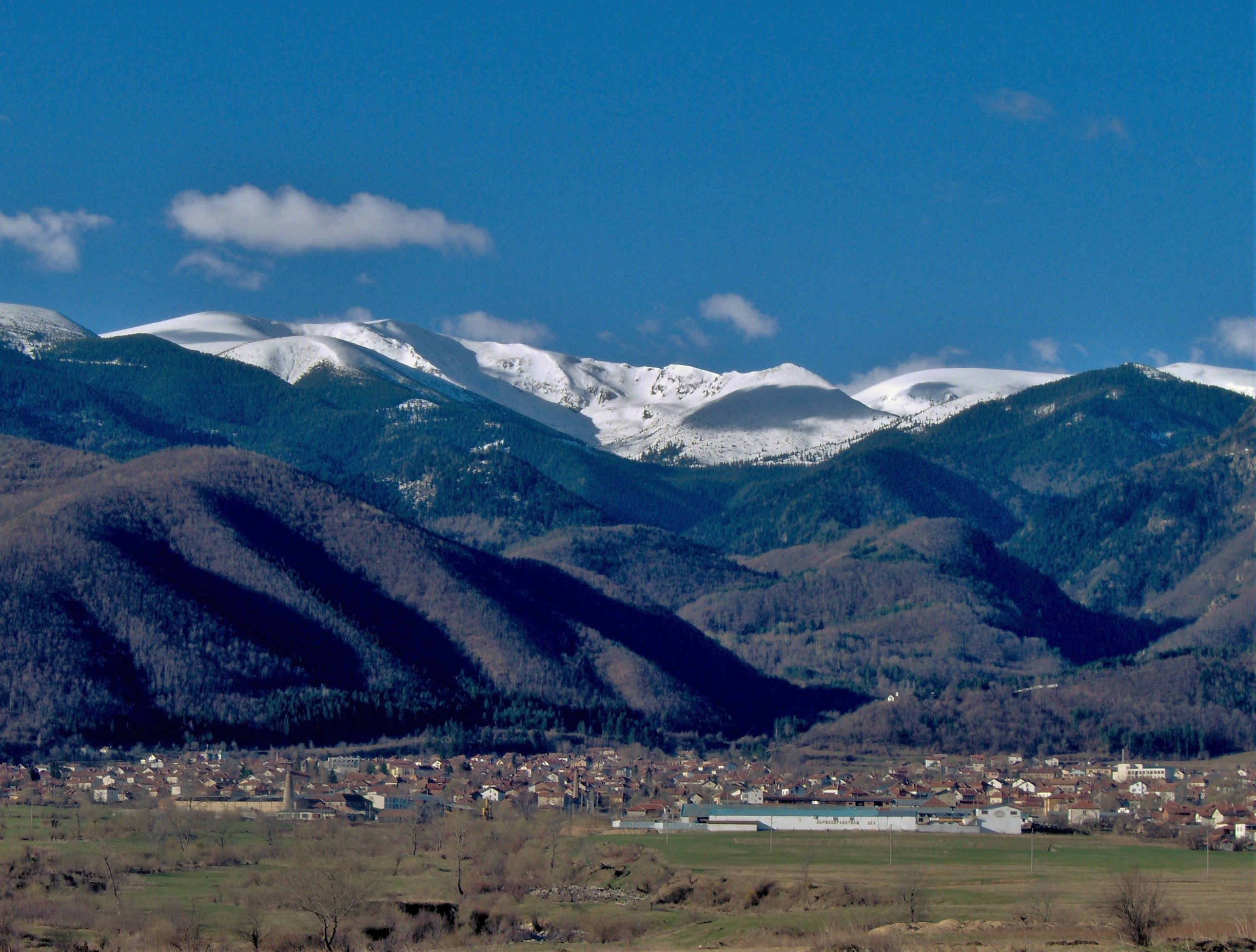 Village of Kostenets in Bulgaria